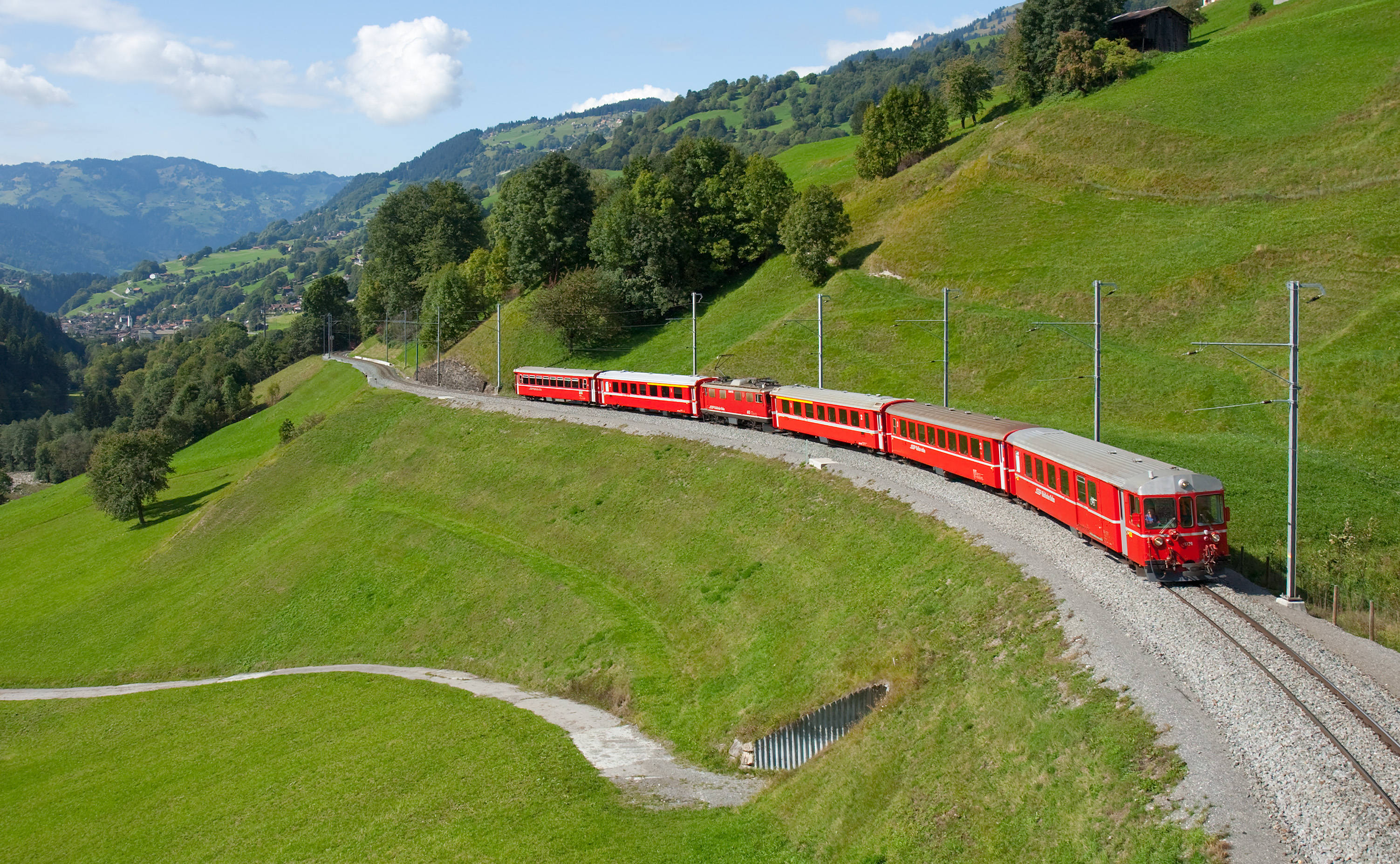 RhB Ge 4/4 I with a push-pull train and two supplemental coaches between Küblis (in the background) and Saas.